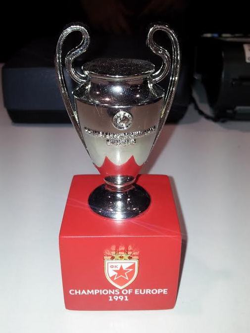 Trofy